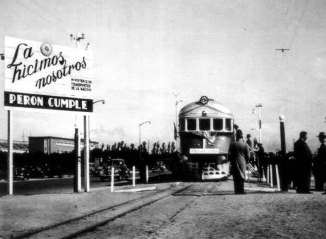 Locomotora MC1